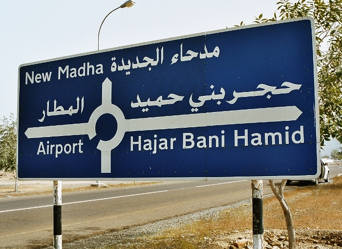 photographed by Rolf Palmberg RoPa